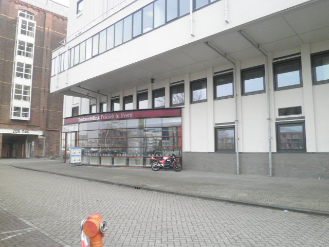 Press Museum in Amsterdam. At the back of the International Institute of Social History (in Dutch IISG)